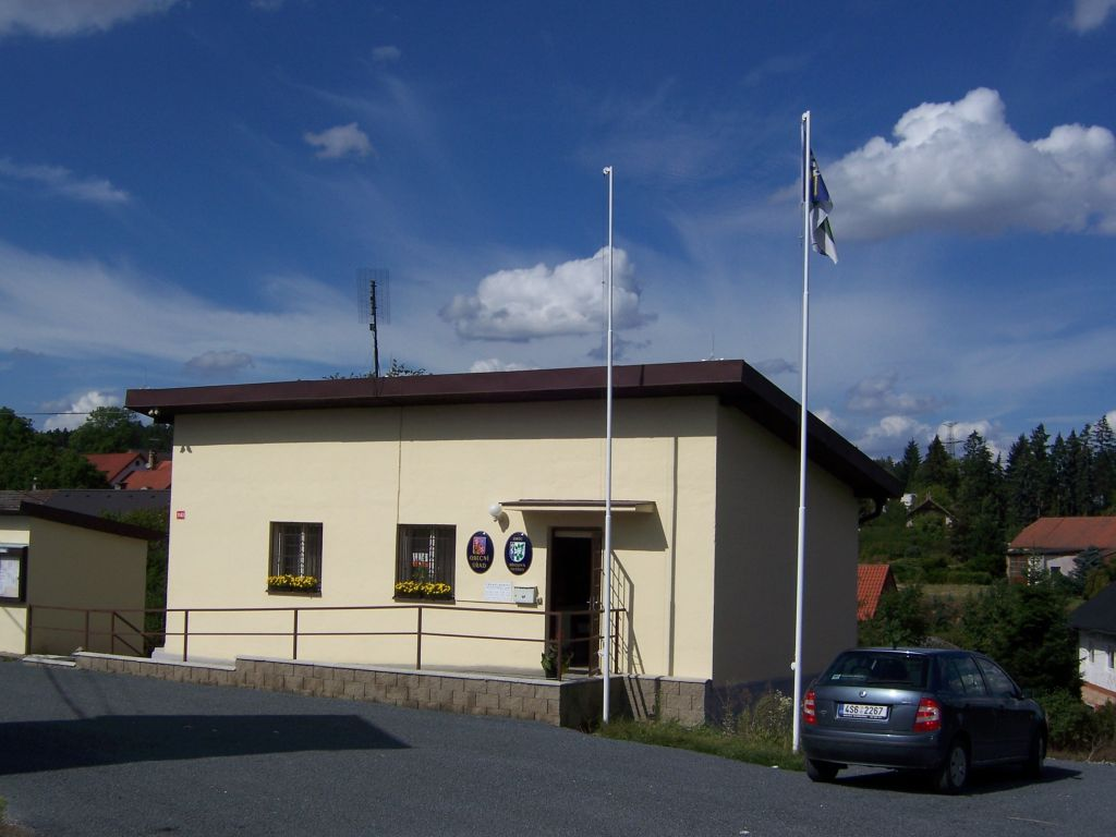 Březová-Oleško, Oleško, town hall